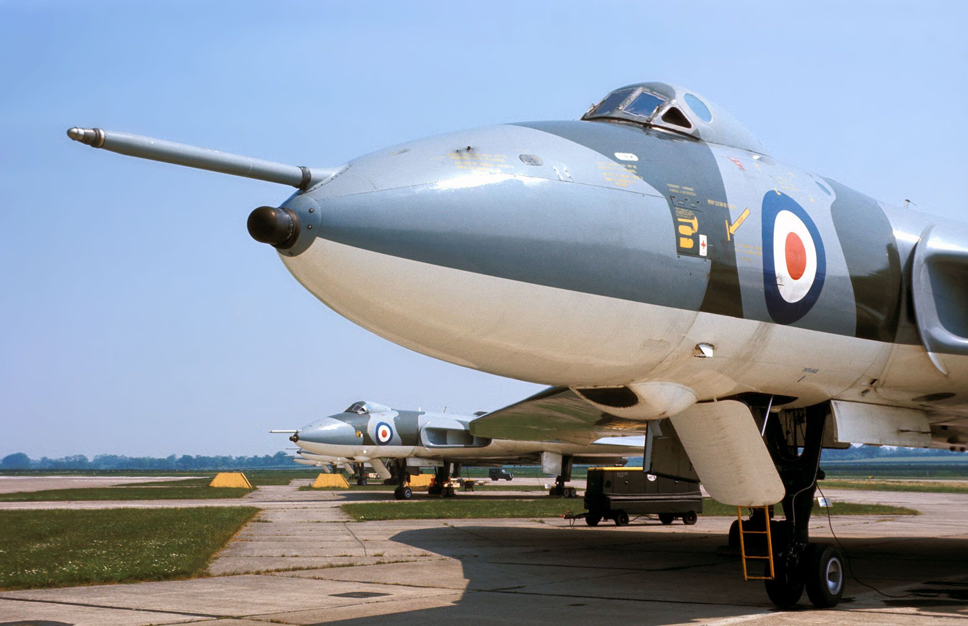 Avro Vulcans of No 617 Squadron on the ORP at RAF Cottesmore circa 1975. The nearest aircraft is XL317.